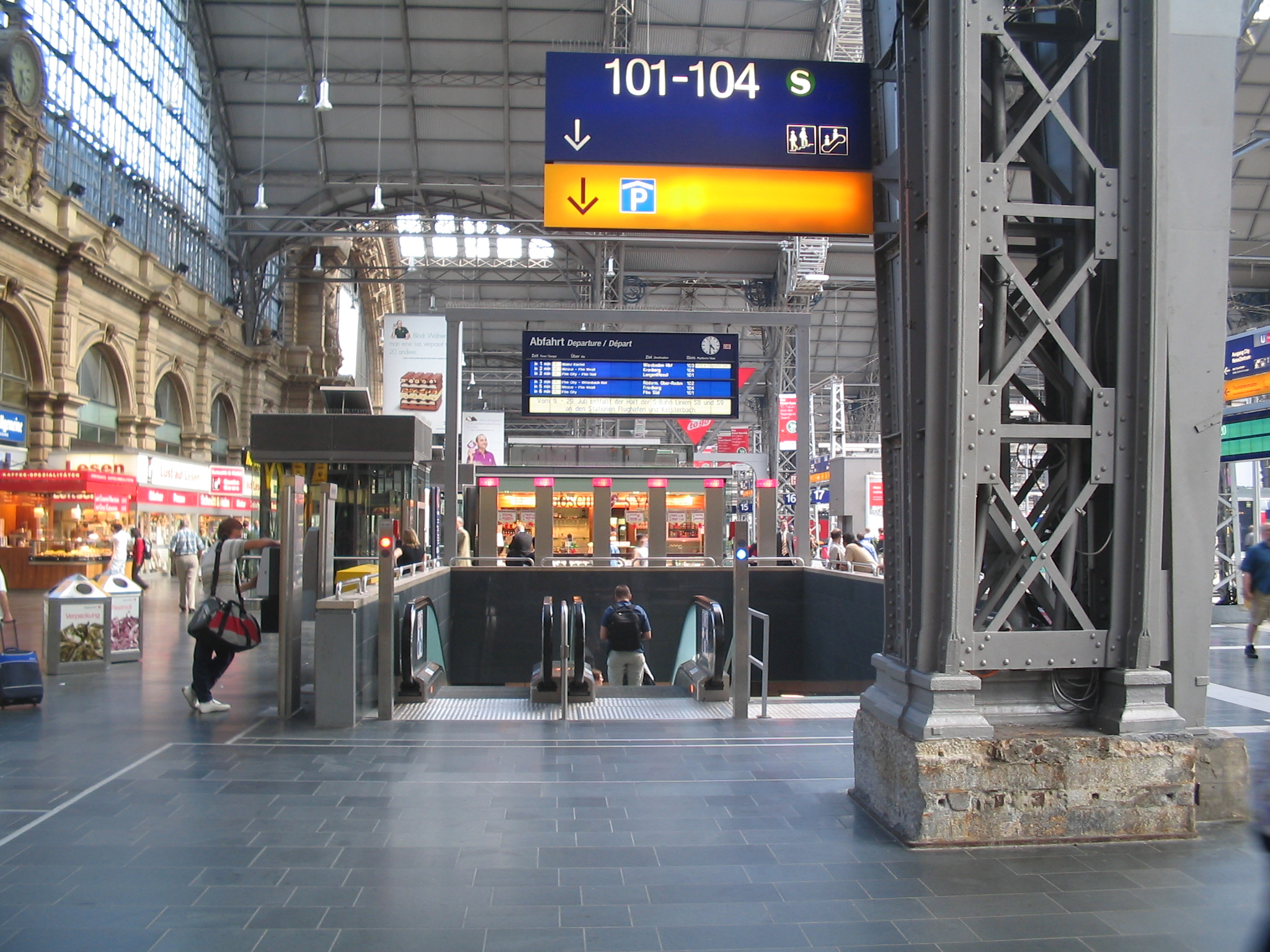 Frankfurt (Main) Hauptbahnhof, the northern stairs down to the four S-Bahn tracks in the lower level, from the cross platform. Showing also one of the pillars carrying the glass roof